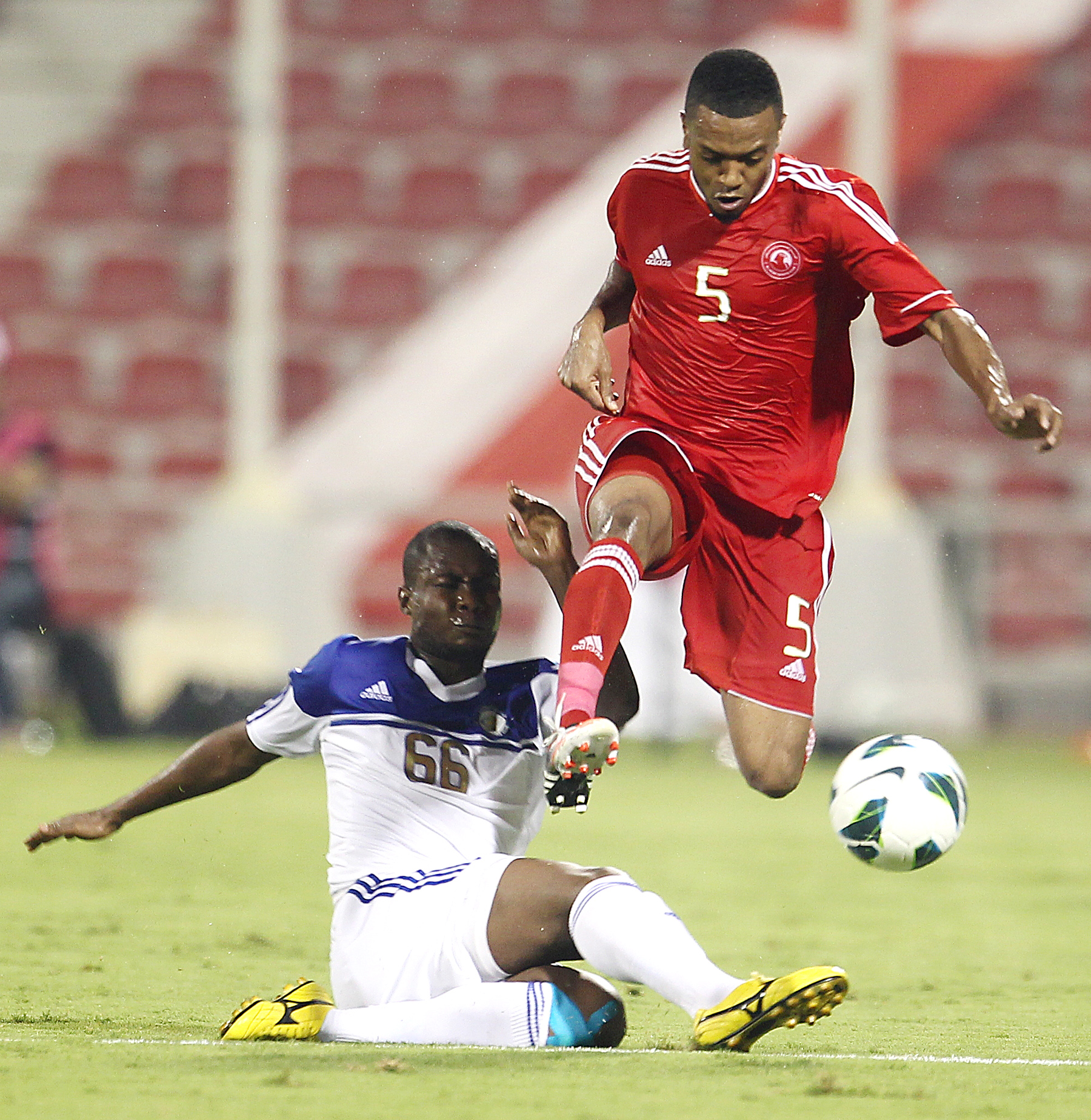 Al Arabi's Majdi Siddiq in action during the Qatar Stars League. Picture by Mohan